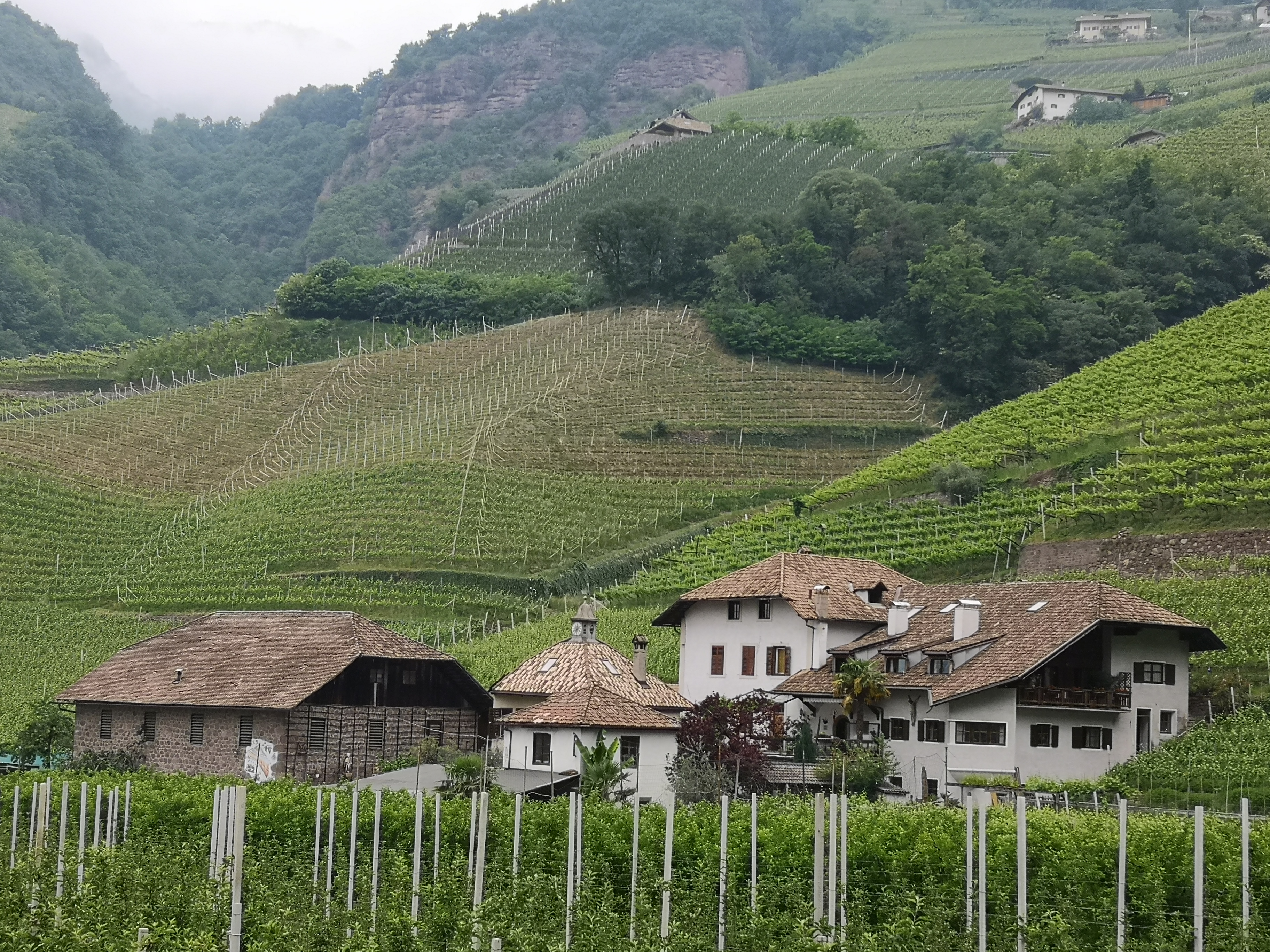 The Fuchs in Tschams farmhouse in Gries-Sand near Bozen